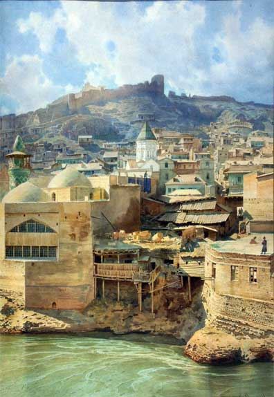 Maidan and Avlabar (Tiflis (now Tbilisi) in Georgia).